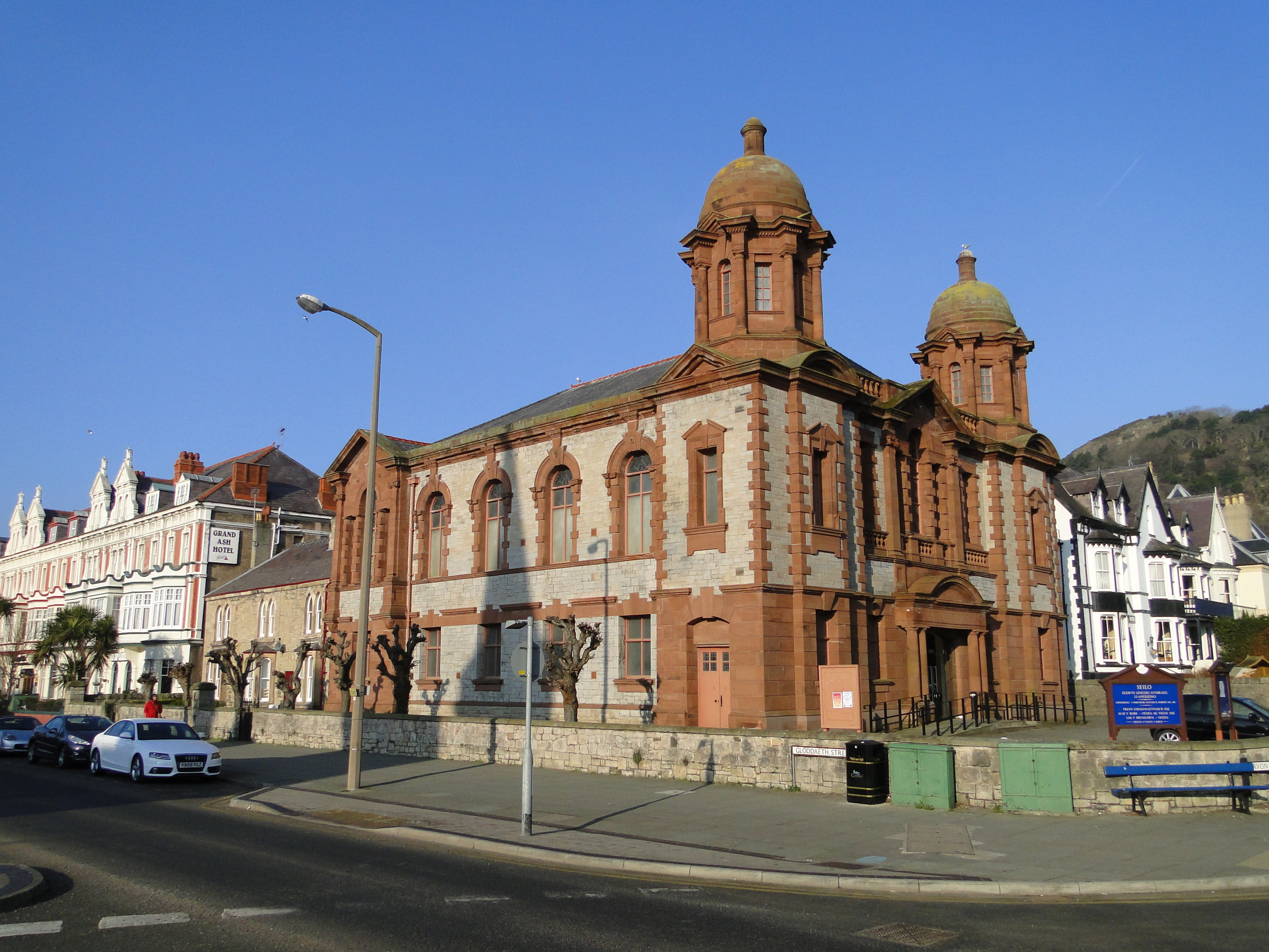 Fynnon Tyn Pwll, one of the renowned wells on Llandudno's Great Orme